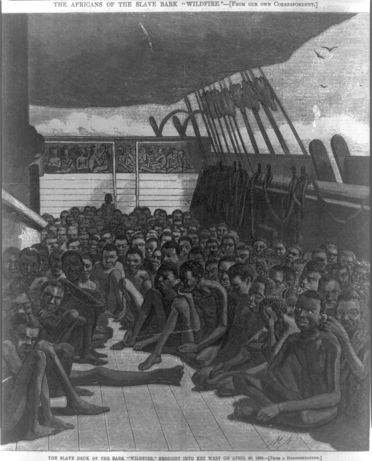 Title: The Africans of the slave bark "Wildfire"--The slave deck of the bark "Wildfire," brought into Key West on April 30, 1860 Abstract/medium: 1 print : wood engraving.